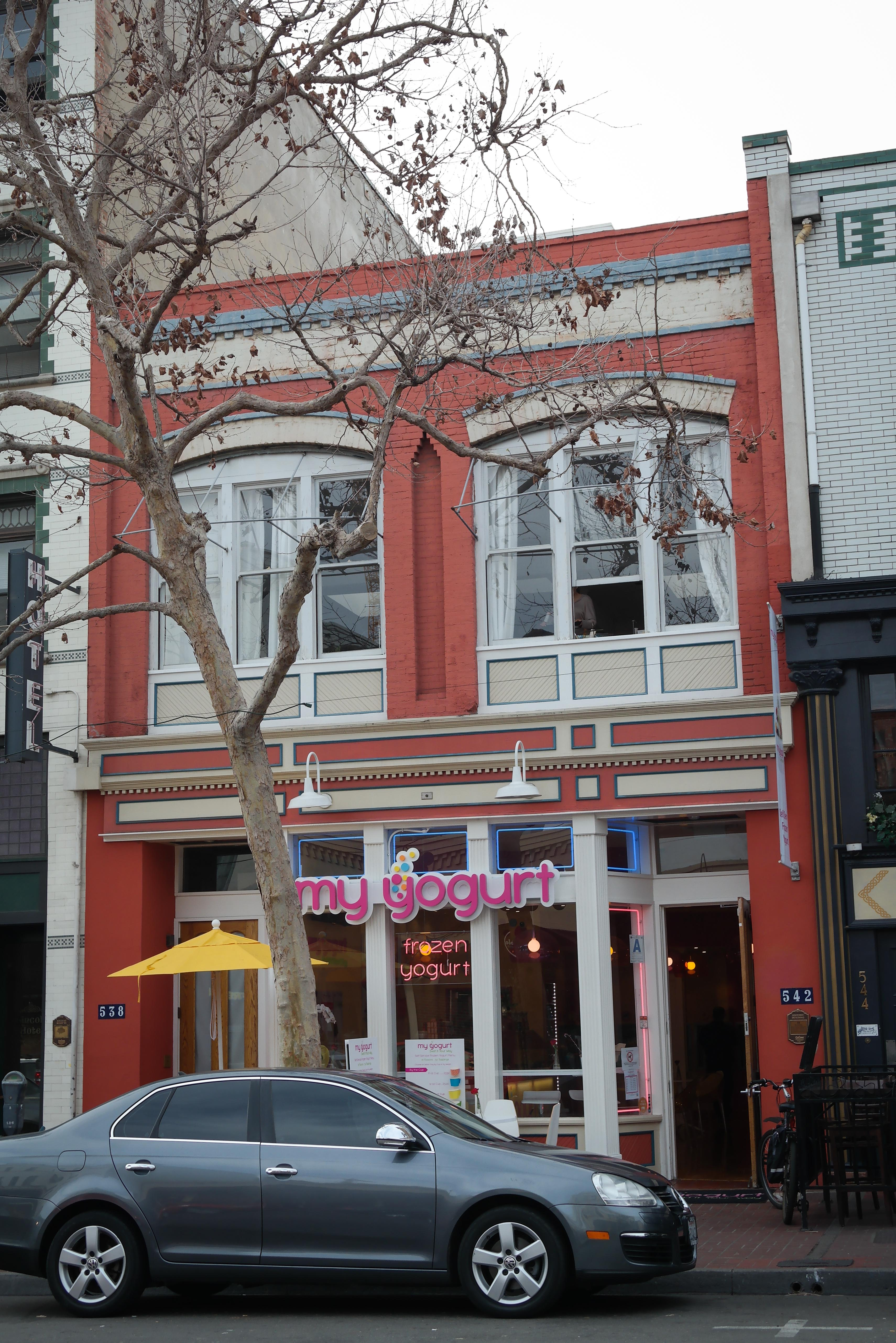 Historic Building Survey plaque: "59 The Lewis Brick Block Stingaree Hotel, 1887. Known as the Lewis Brick Block, the upper floors were referred to as the Stingaree Hotel in reference to the area's red light district. The main floor was used for a cigar and tobacco shop, billiard hall and revival center. This Victorian building is characterized by decorative brick arches over the second story windows and stepped brickwork along the roof line."